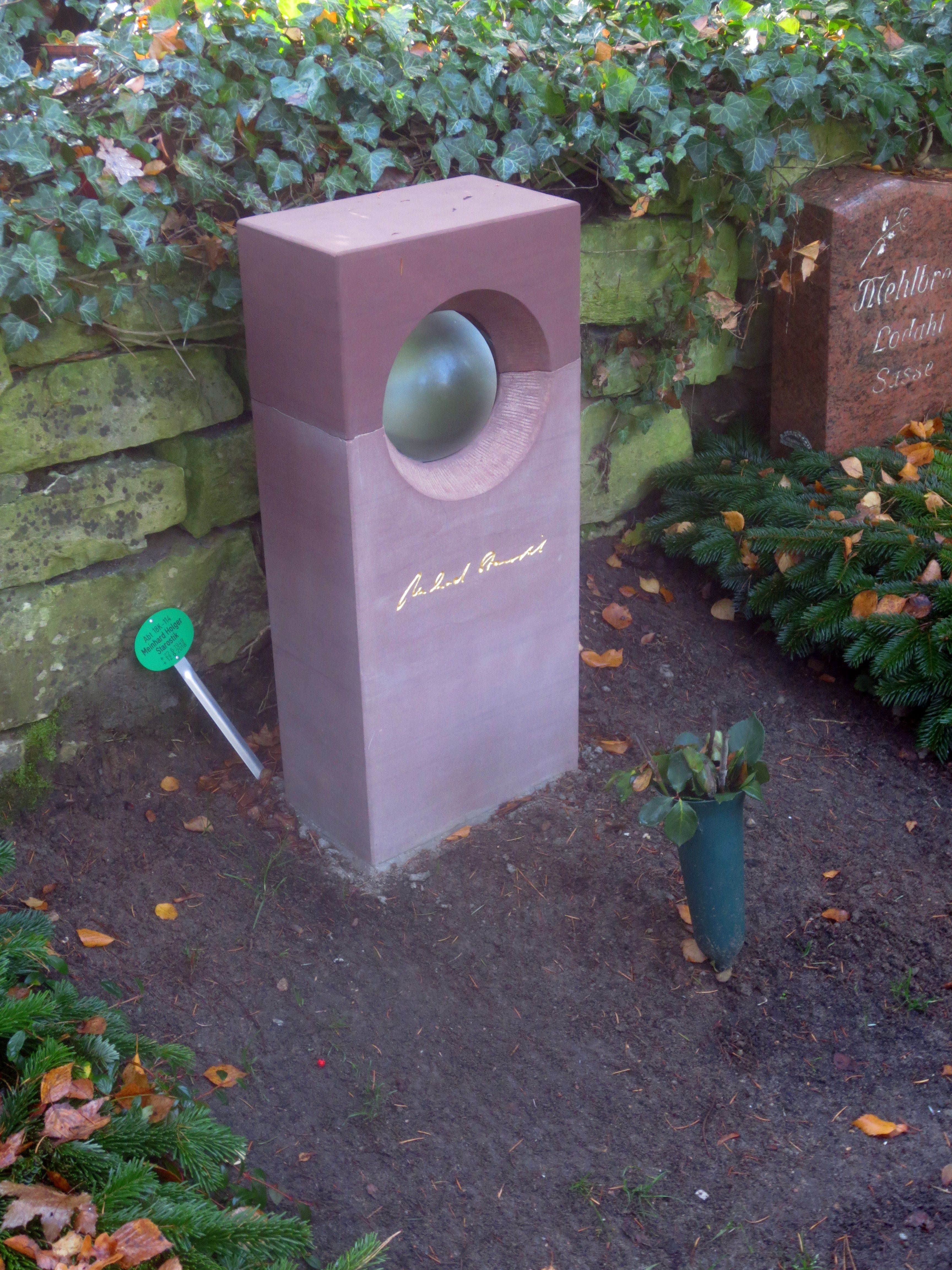 Grave of the jurist Meinhard Starostik (1949-2018) on the Friedhof Heerstraße cemetery in Berlin-Westend (grave position: 18-K-114).